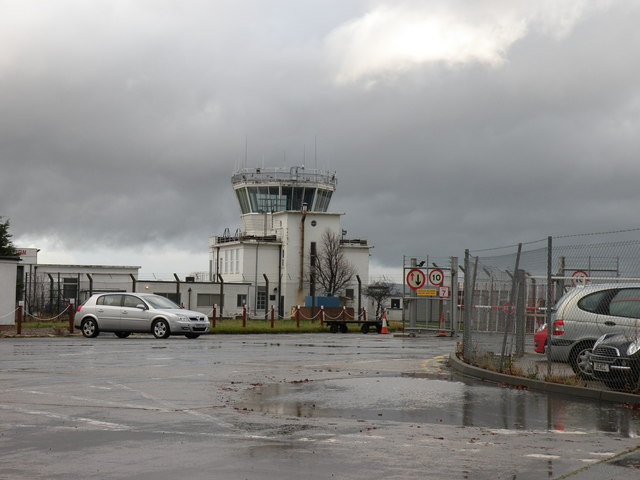 Control Tower at Durham Tees Valley Airport